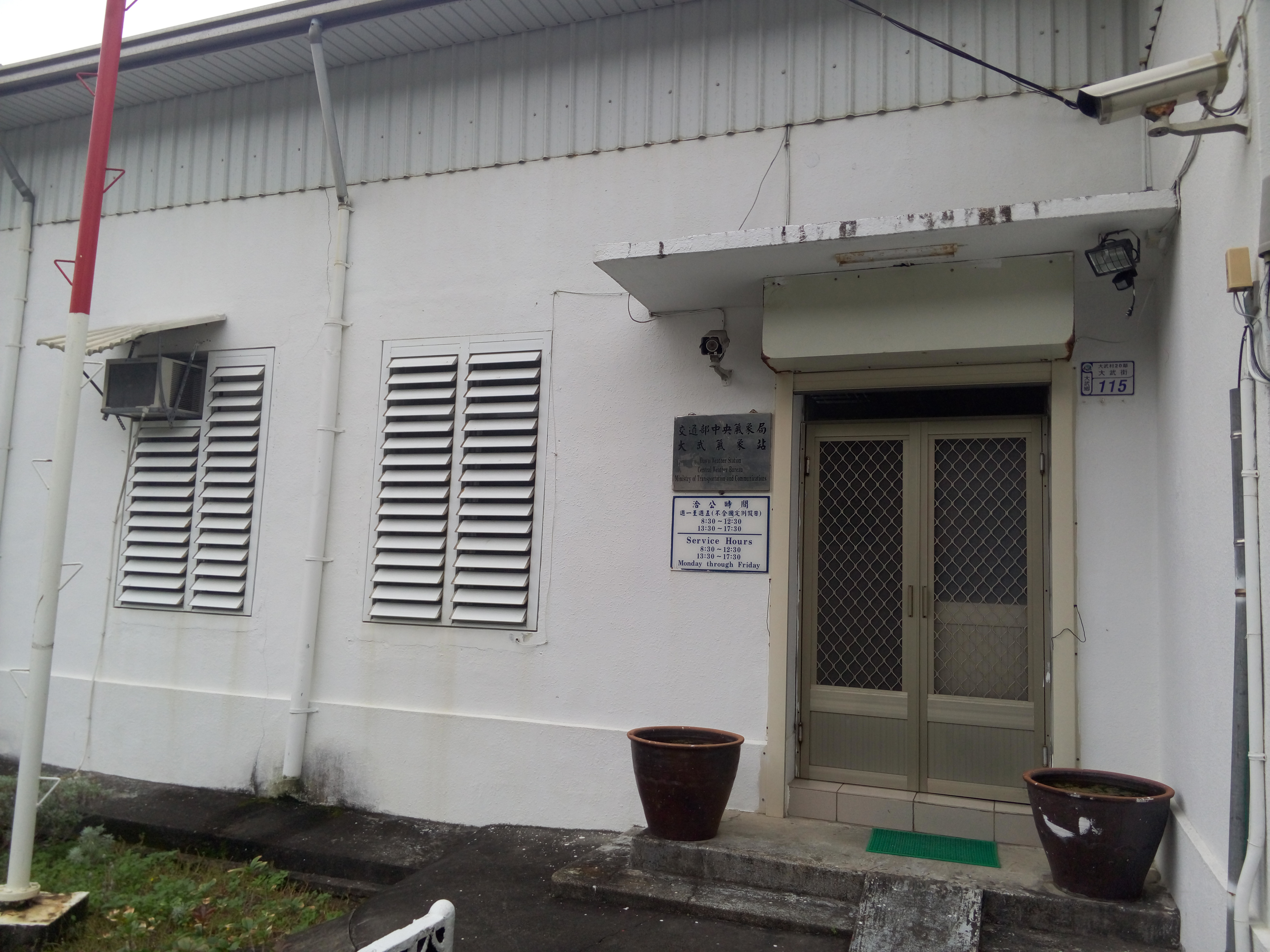 Ta-Wu Weather Station Gate